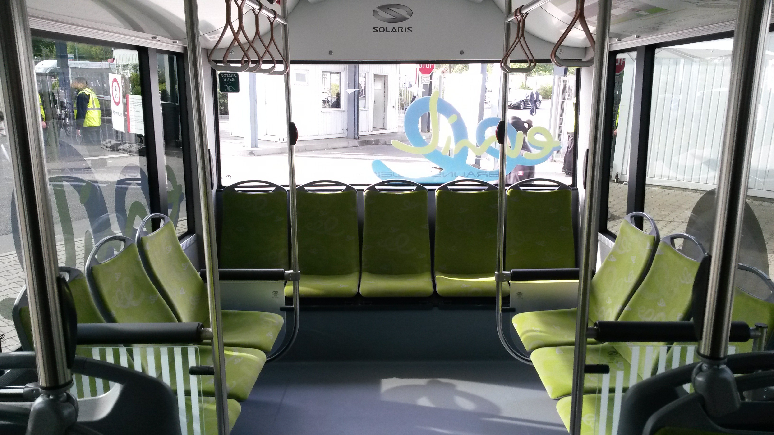 Interior of a Solaris Urbino 18 electric. With the battery placed on the rooftop, the articulated bus delivers more space for seats in the rear area of the bus.